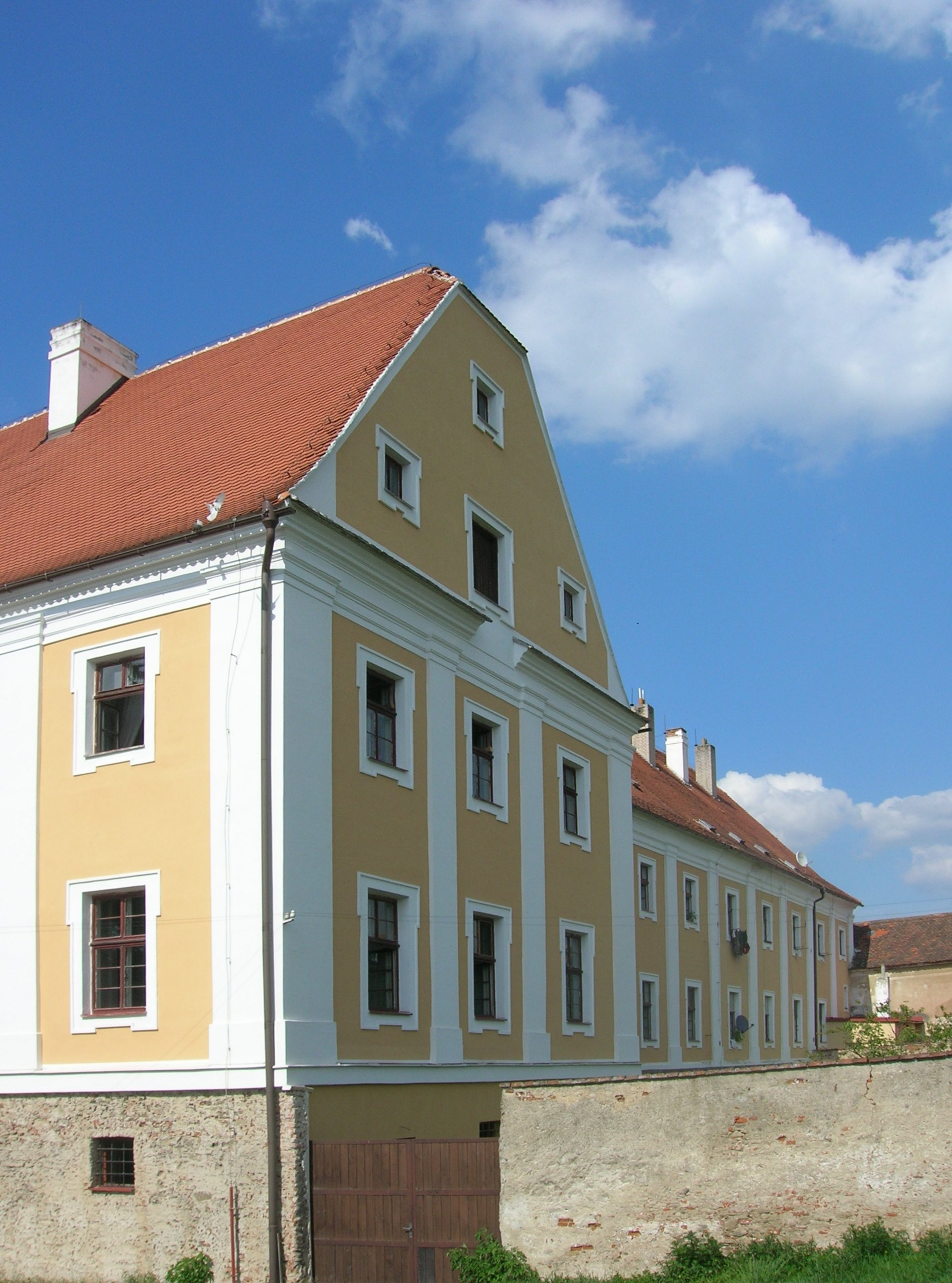 Jaroměřice nad Rokytnou. Former servite monastery